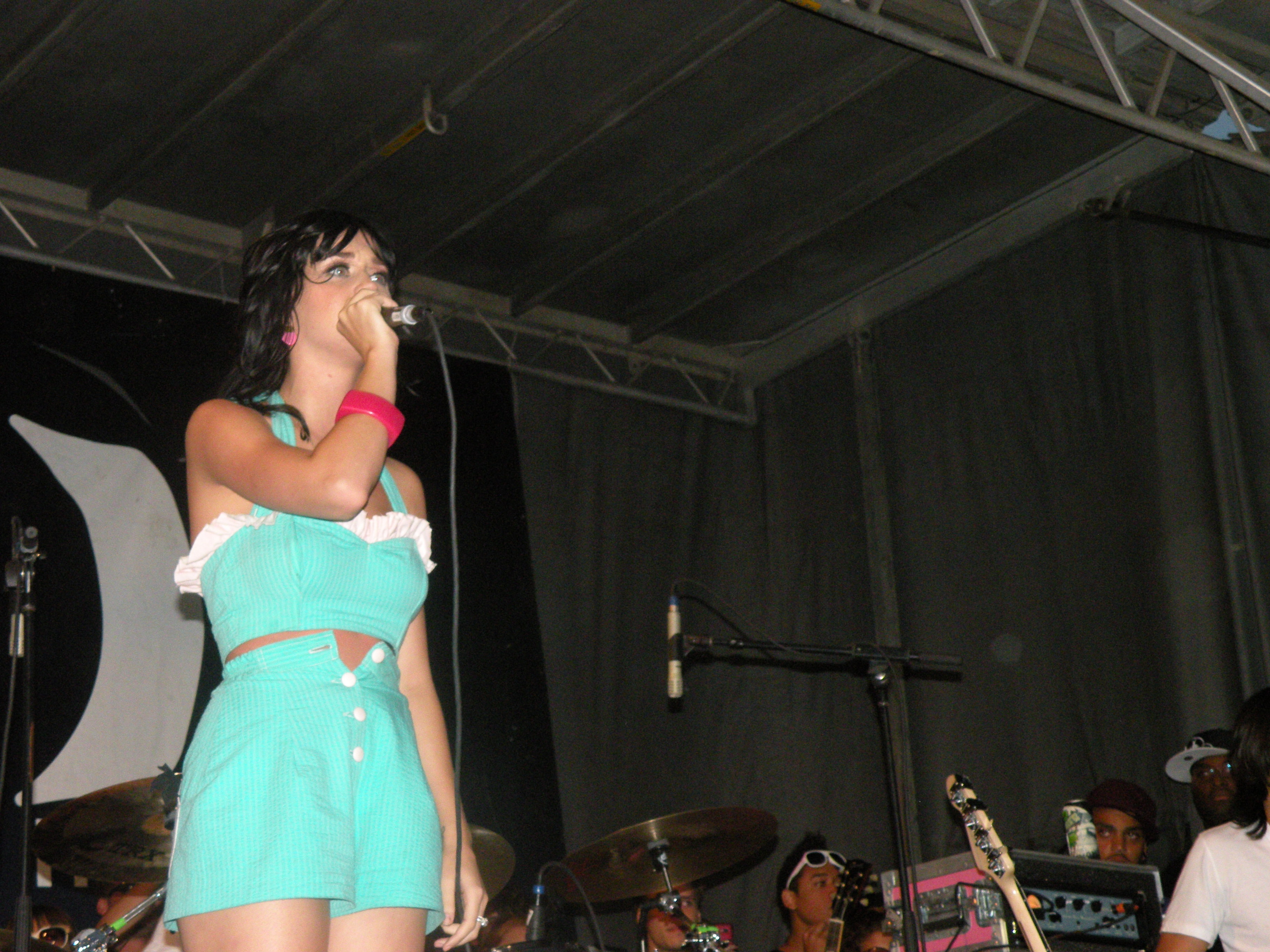 Katy Perry performing in Uniondale, New York on the Warped Tour